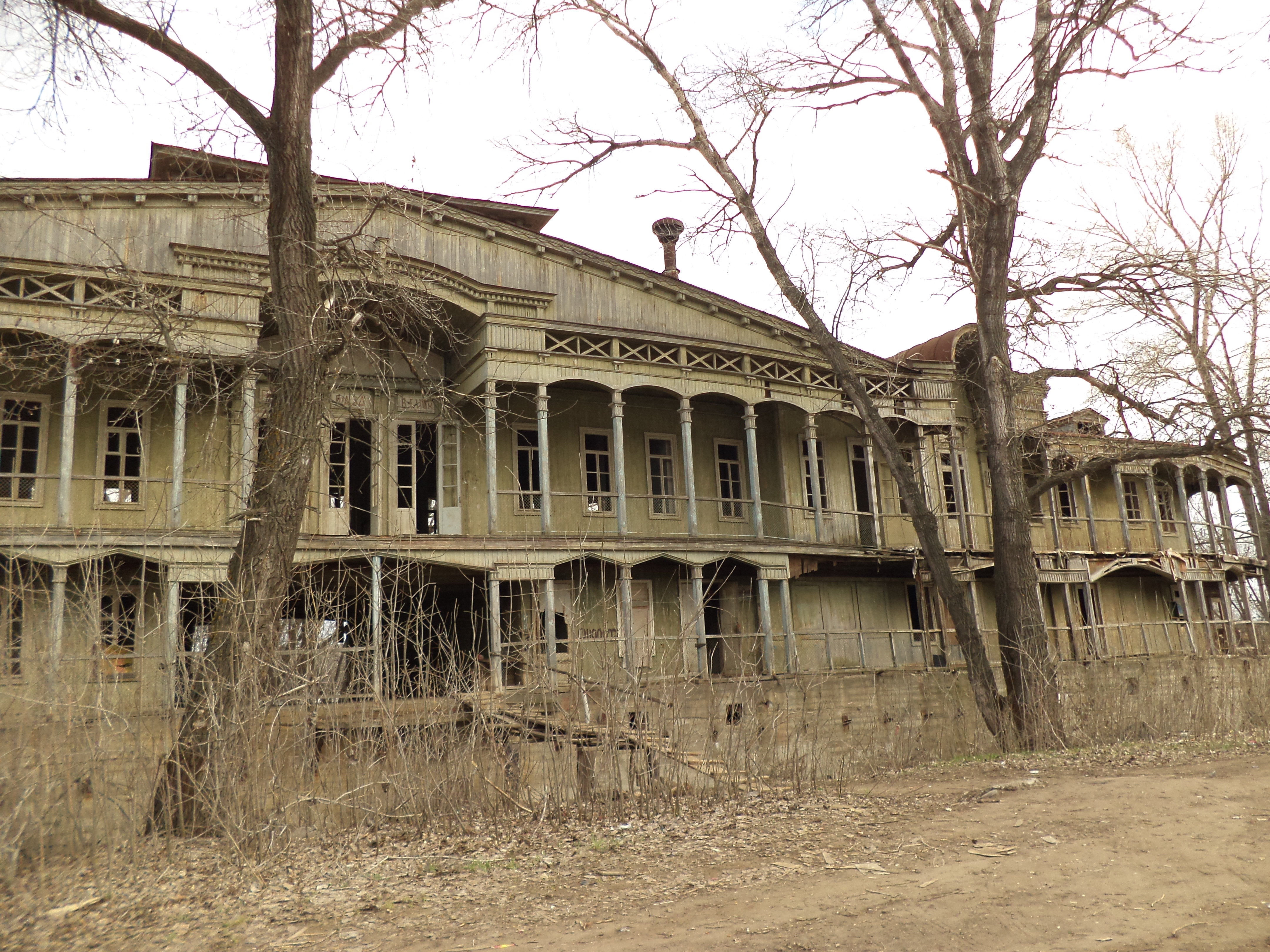 Volgograd wharfboats